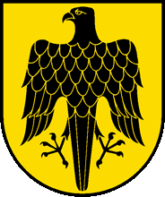 Blazon of Sommeri, Canton of Thurgau, SwitzerlandEsperanto: Blazono de Sommeri, Kantono Turgovio, Svislando